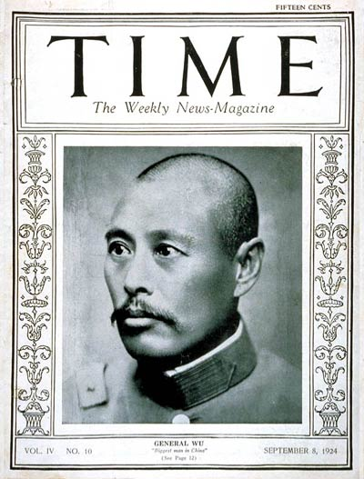 Time magazine, Volume 4 Issue 16, September 8, 1924. The cover shows Chinese Warlord Era General Wu Peifu.